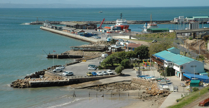 View of Mossel Bay Yacht & Boat Club with Mossel Bay harbour background.